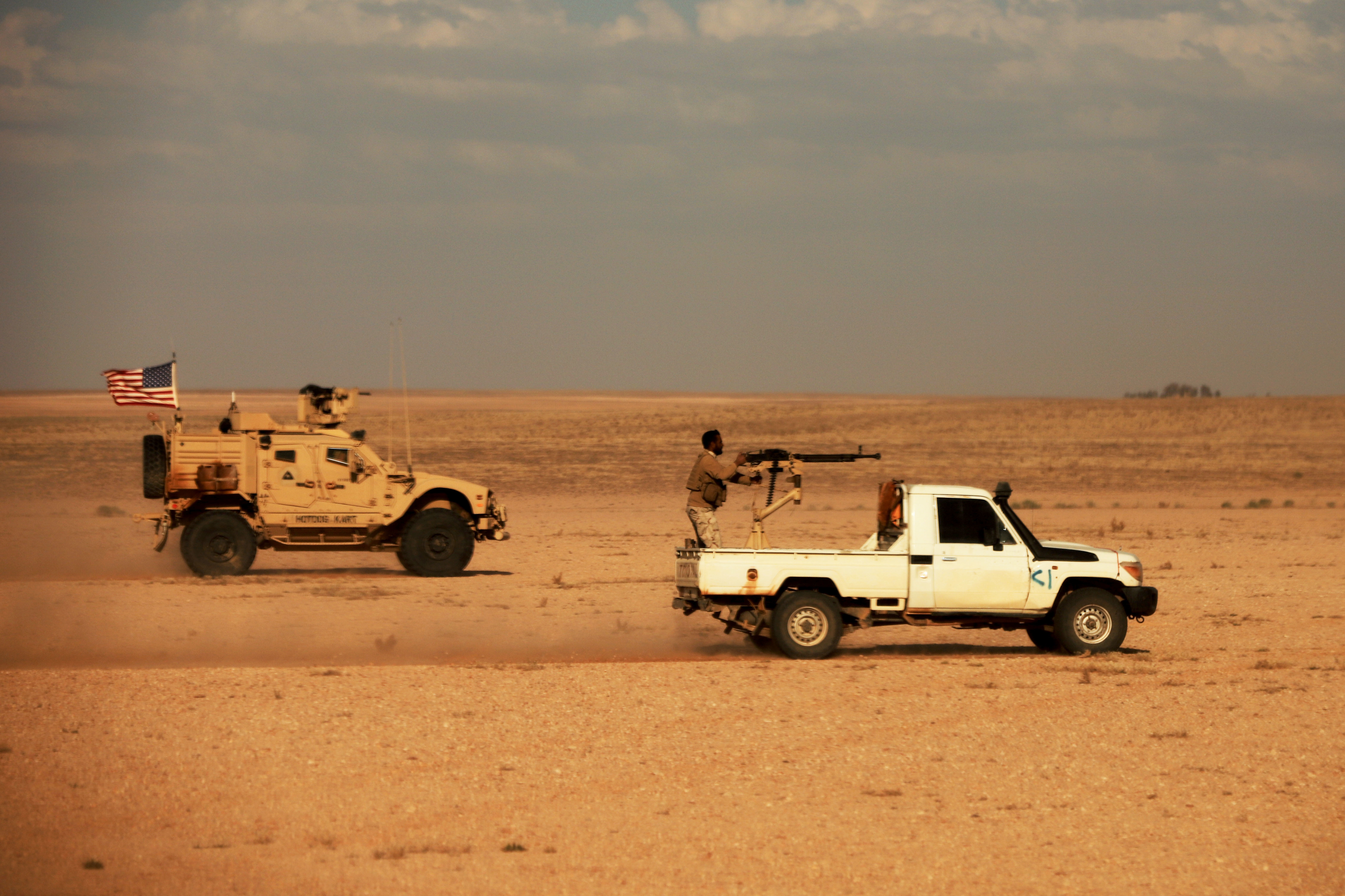 Green Berets and their partner force, the Maghaweir al-Thowra (MaT), during a joint patrol mission near At-Tanf Garrison, Syria, April 29, 2020. Coalition forces train and advise the MaT in southern Syria in pursuit of the enduring defeat of Daesh and to set conditions for regional stability. (U.S. Army photo by Staff Sgt. William Howard)